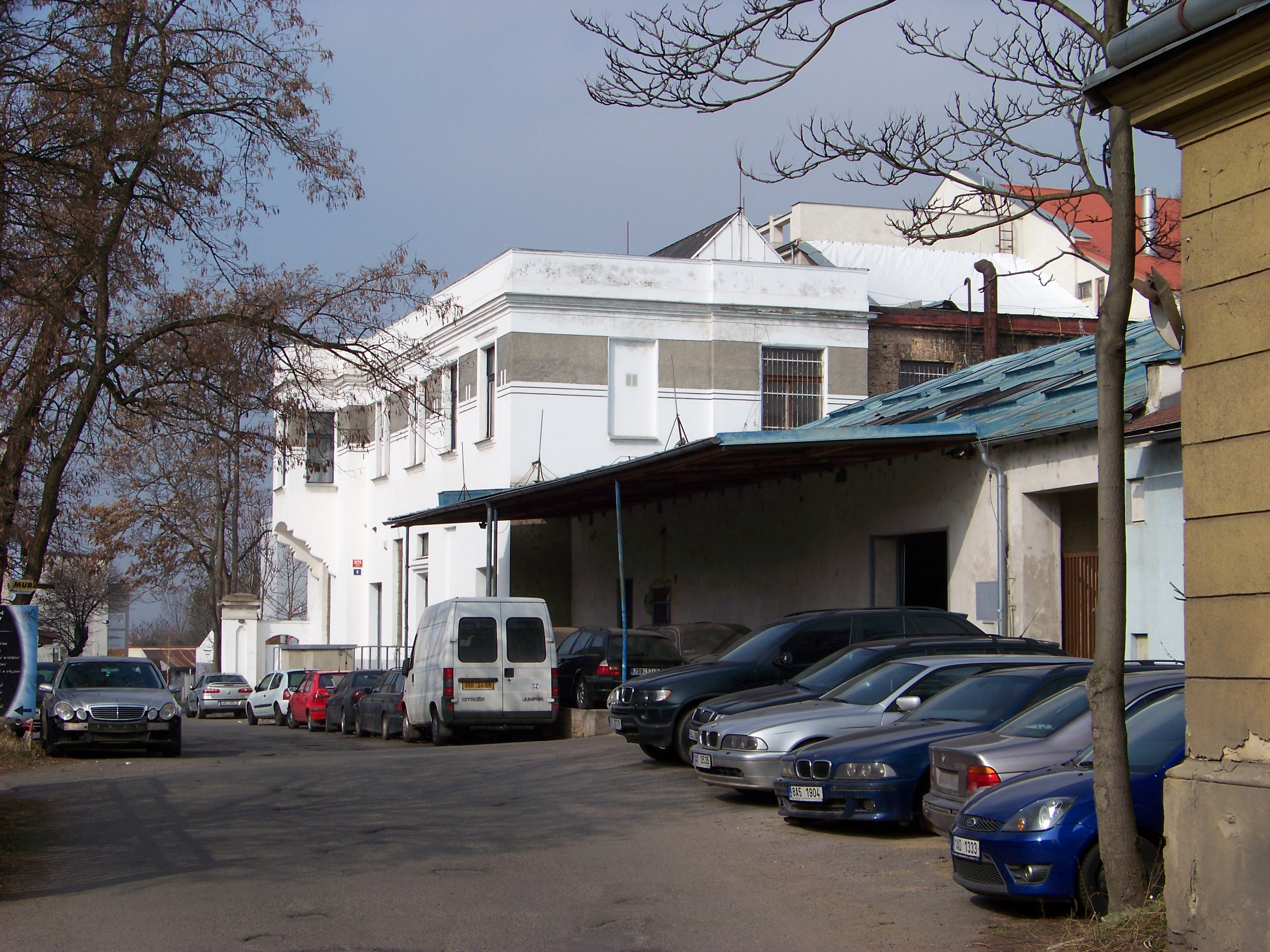 Prague-Libeň, the Czech Republic. Na Košince street.